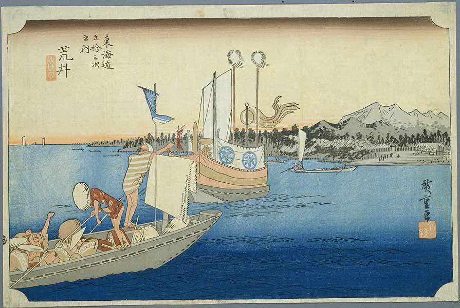 Arai on the Tokaido, ukiyo-e prints by Hiroshige